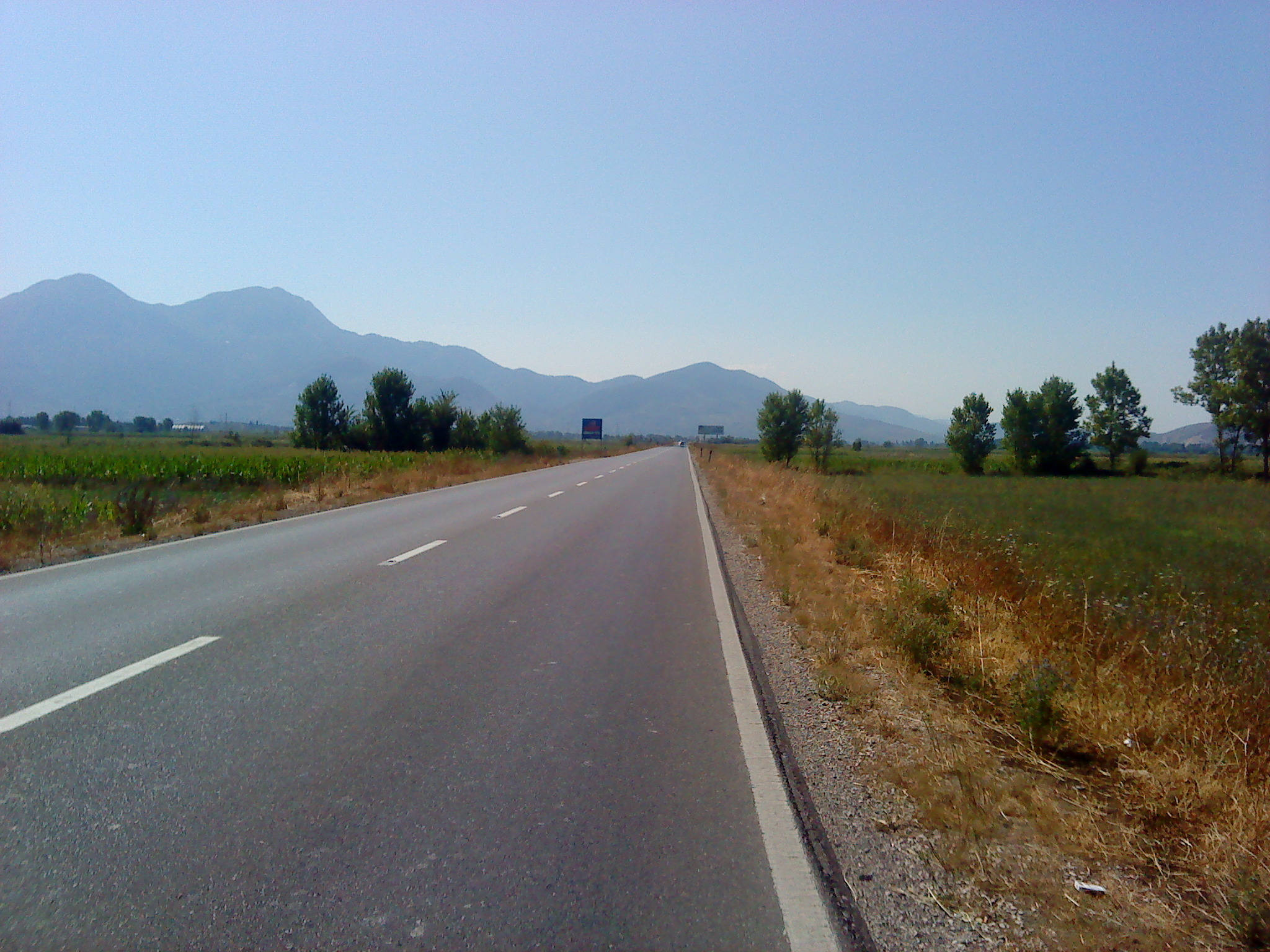 National Road 1 (Albania), albanian National Road between Shokdra and Lezhë